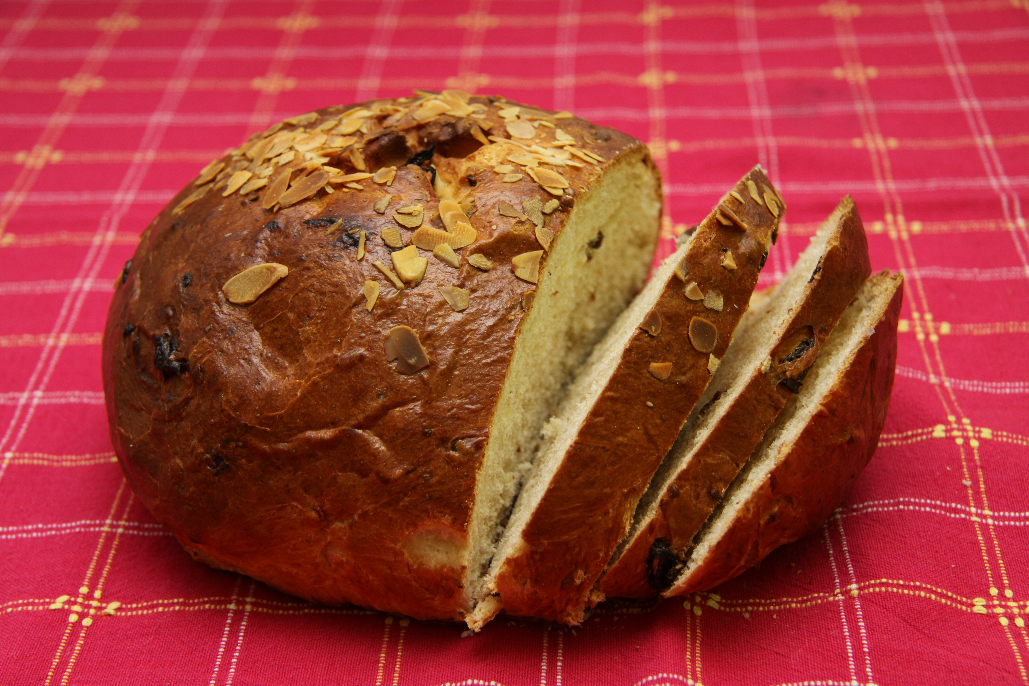 Mazanec - czech sweet bread, Czech Republic.